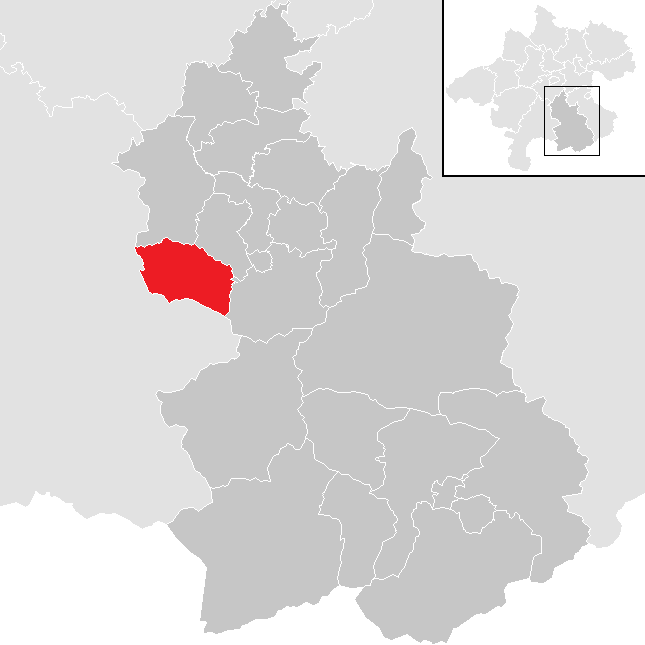 district Kirchdorf an der Krems